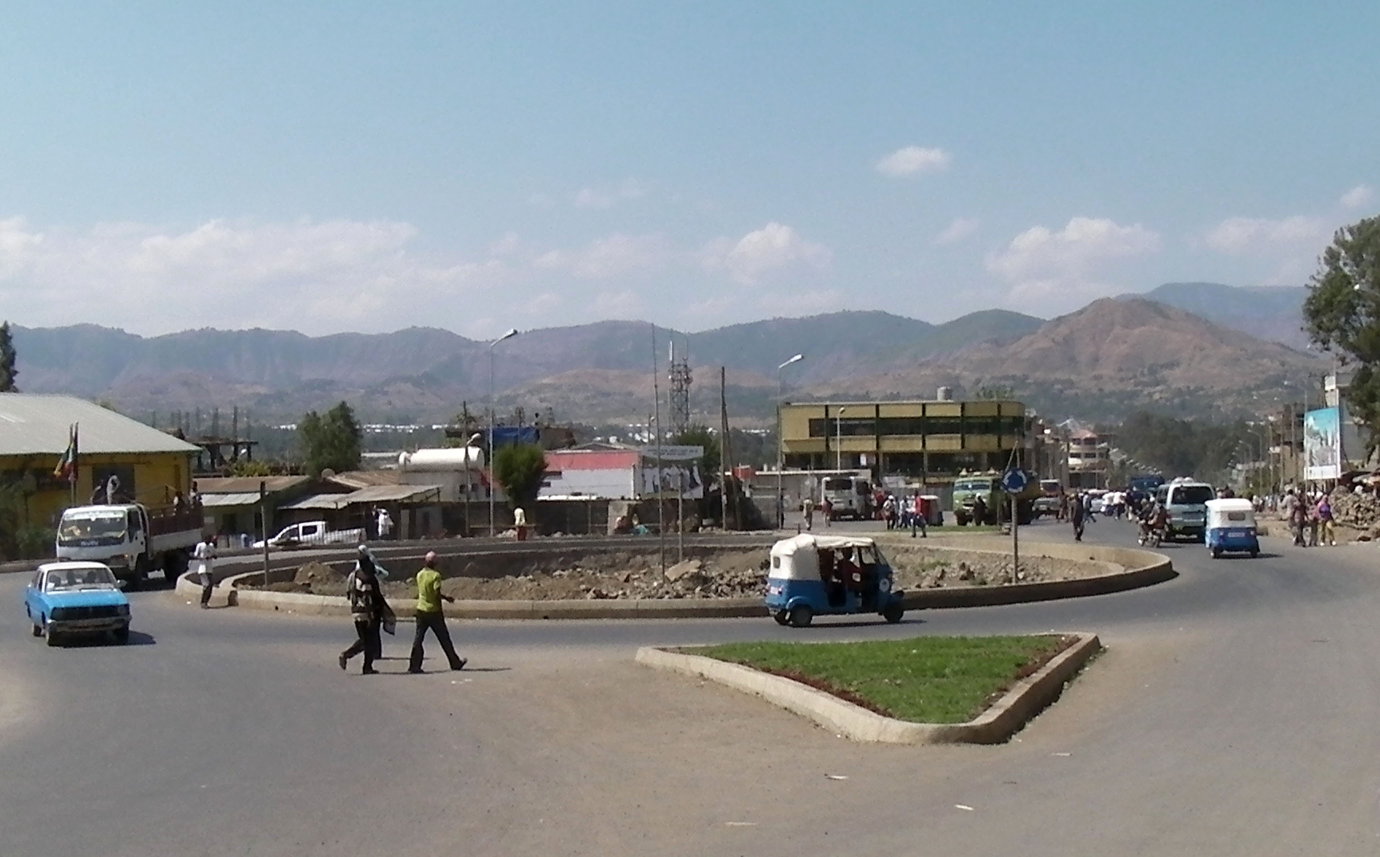 Looking west over a traffic circle in central Kombolcha, Ethiopia.